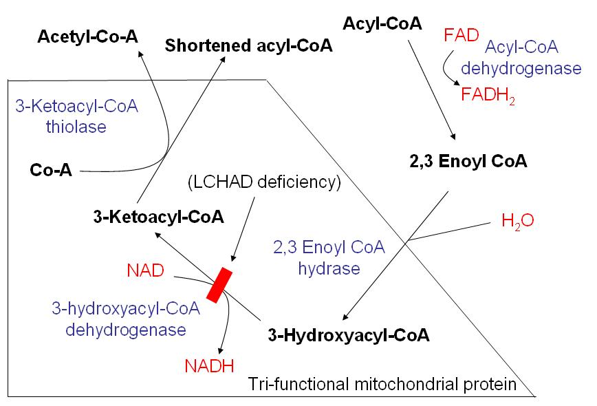 Schematic demonstrating mitochondrial fatty acid beta-oxidation and effects of long-chain 3-hydroxyacyl-coenzyme A dehydrogenase deficiency, LCHAD deficiency